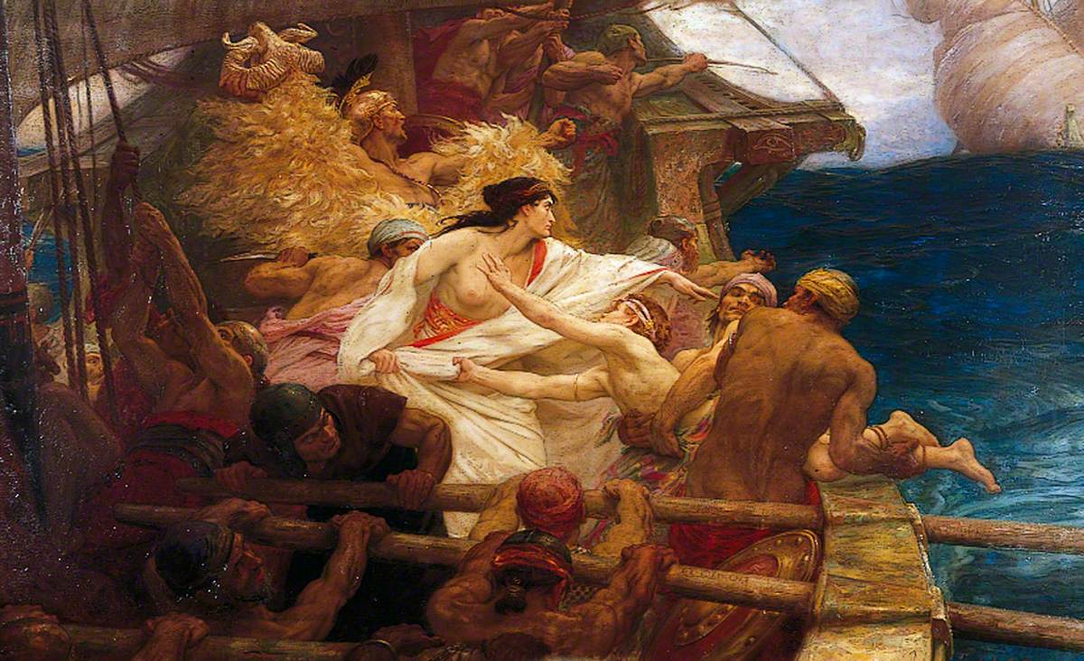 The Golden Fleece by Herbert James Draper, 1864-1920. 1904. Oil on canvas, 155 x 272.5 cm. Courtesy of Bradford Museums, Galleries & Heritage (Cartwright Hall). According to Simon Toll, "the image of the powerful femme fatale makes her most dramatic appearance in Draper's ambitious, large canvas The Golden Fleece" (119), which is "certainly the most histrionic" (120) of his paintings. As a passage attached to the painting when it was exhibited at the Royal Academy explains, Medea throws her brother into the sea to drown so that her father will slacken his pursuit longer enough for her to escape with the golden fleece.